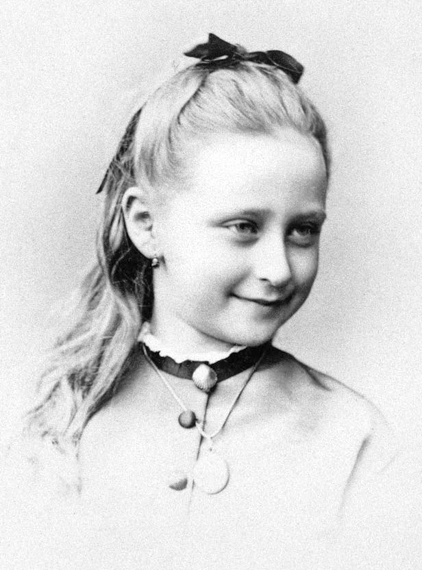 Princess Elizabeth of Hesse as a young girl